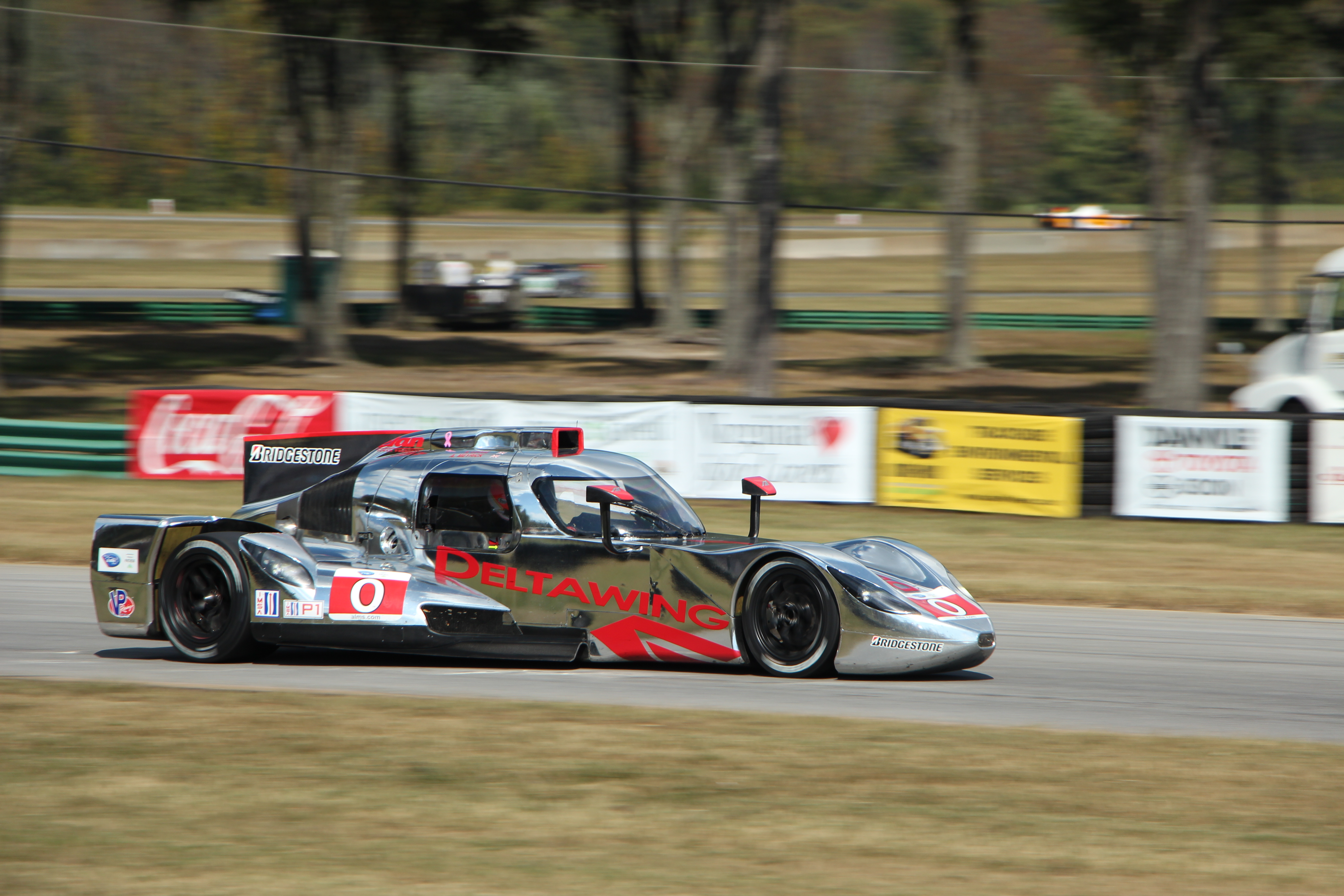 DeltaWing coupe version